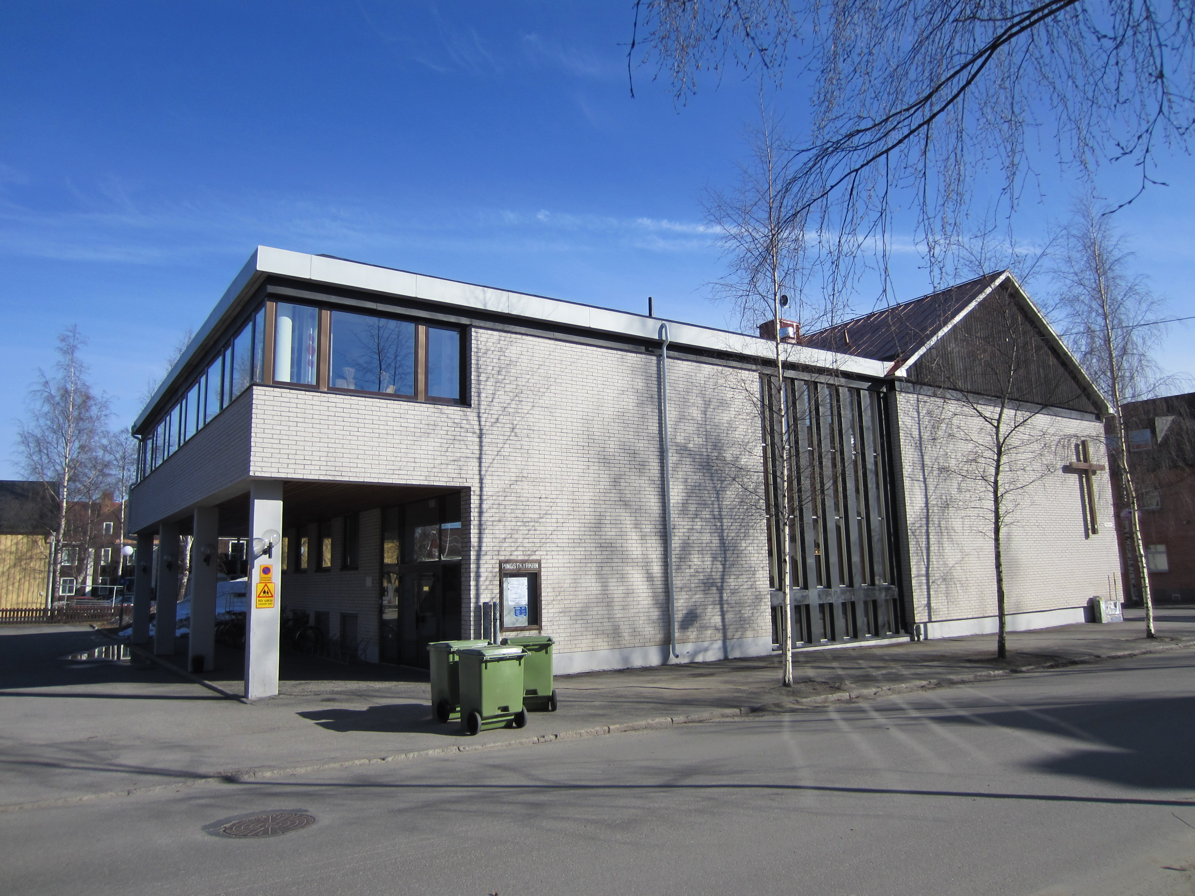 Pentecostal church in Umeå.